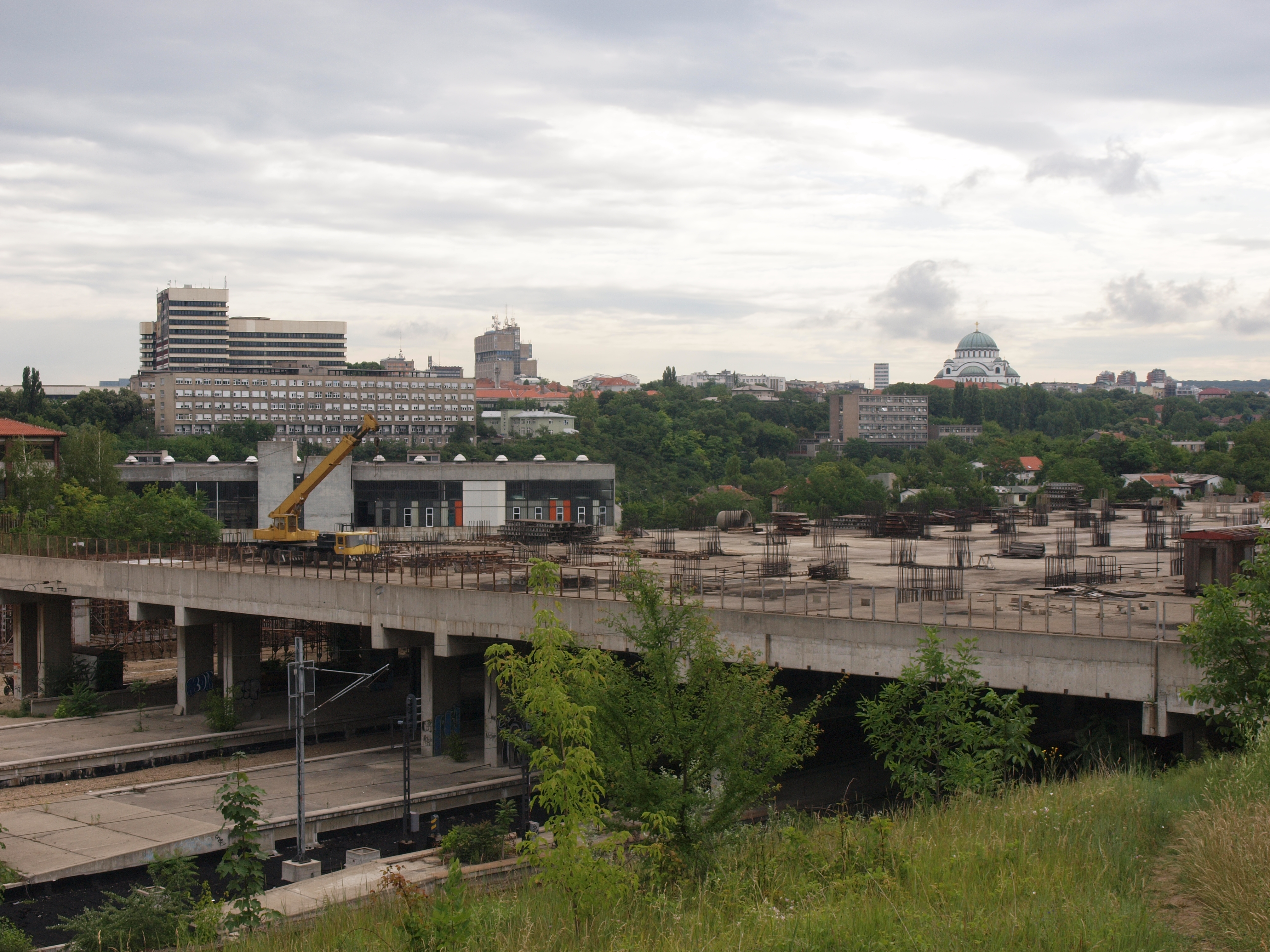 Construction site Prokop Belgrade